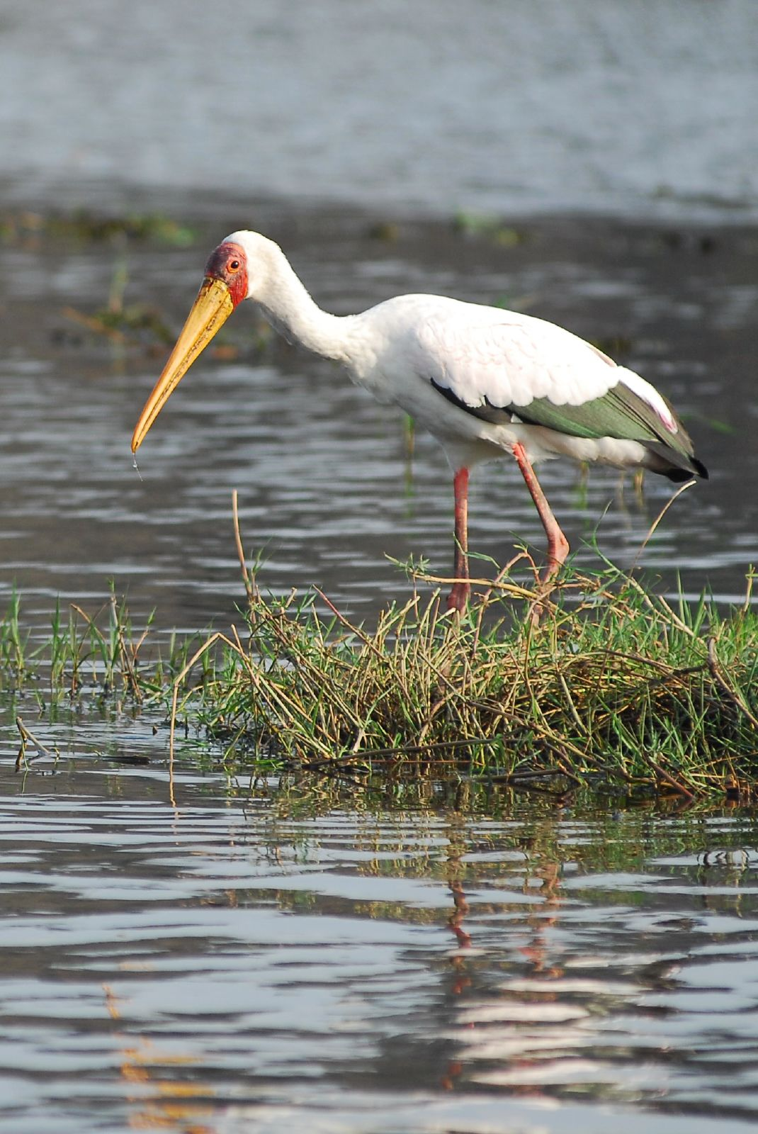 A Yellow-billed Stork in Okavango Delta, Botswana.